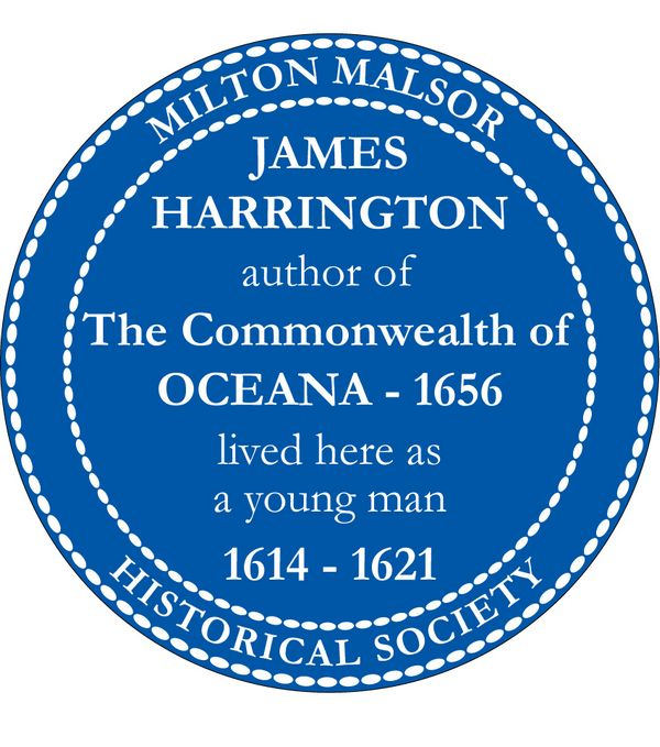 Blue plaque on the Rectory Lane Manor House, Milton Malsor, England This image represents an Open Plaques entry #28279.